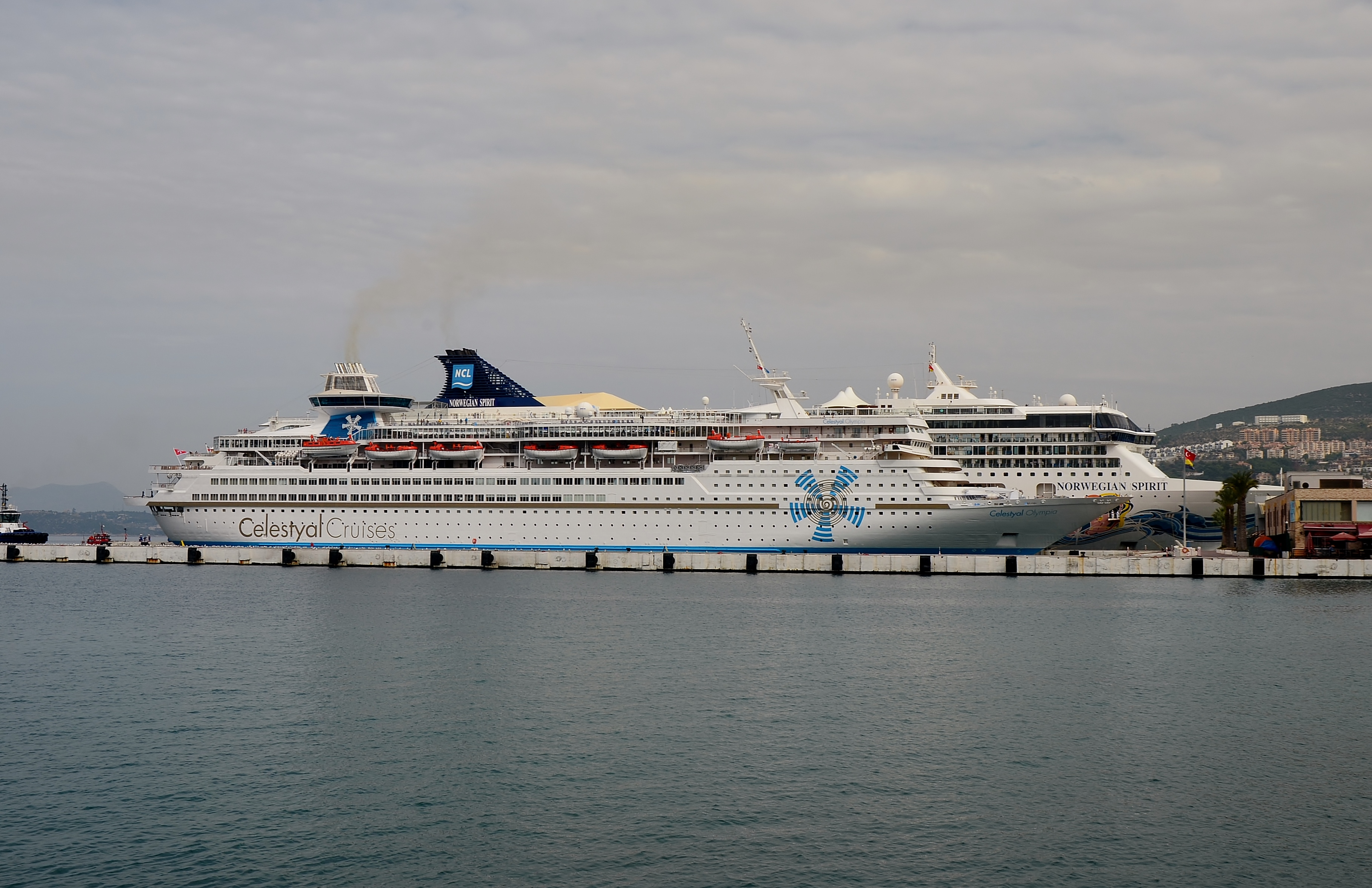 Cruise ships in Kuşadası, Aydın